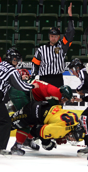 A fight during junior ice hockey game between Frölunda HC (red) and Västerås HK (yellow), at Scandinavium arena in Gothenburg, Sweden.